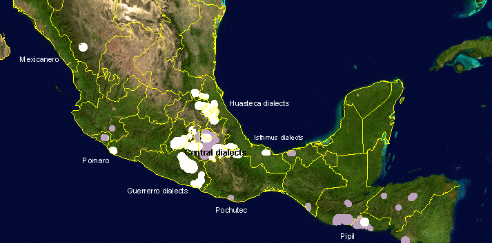 Map of Nahuatl dialects in Mexico, based on information from the Ethnologue, from Yolanda Lastra de Suárez "Áreas dialectales del nahuatl moderno" and John Foughts article on the ethnohistory of the Pipil-Nicarao.